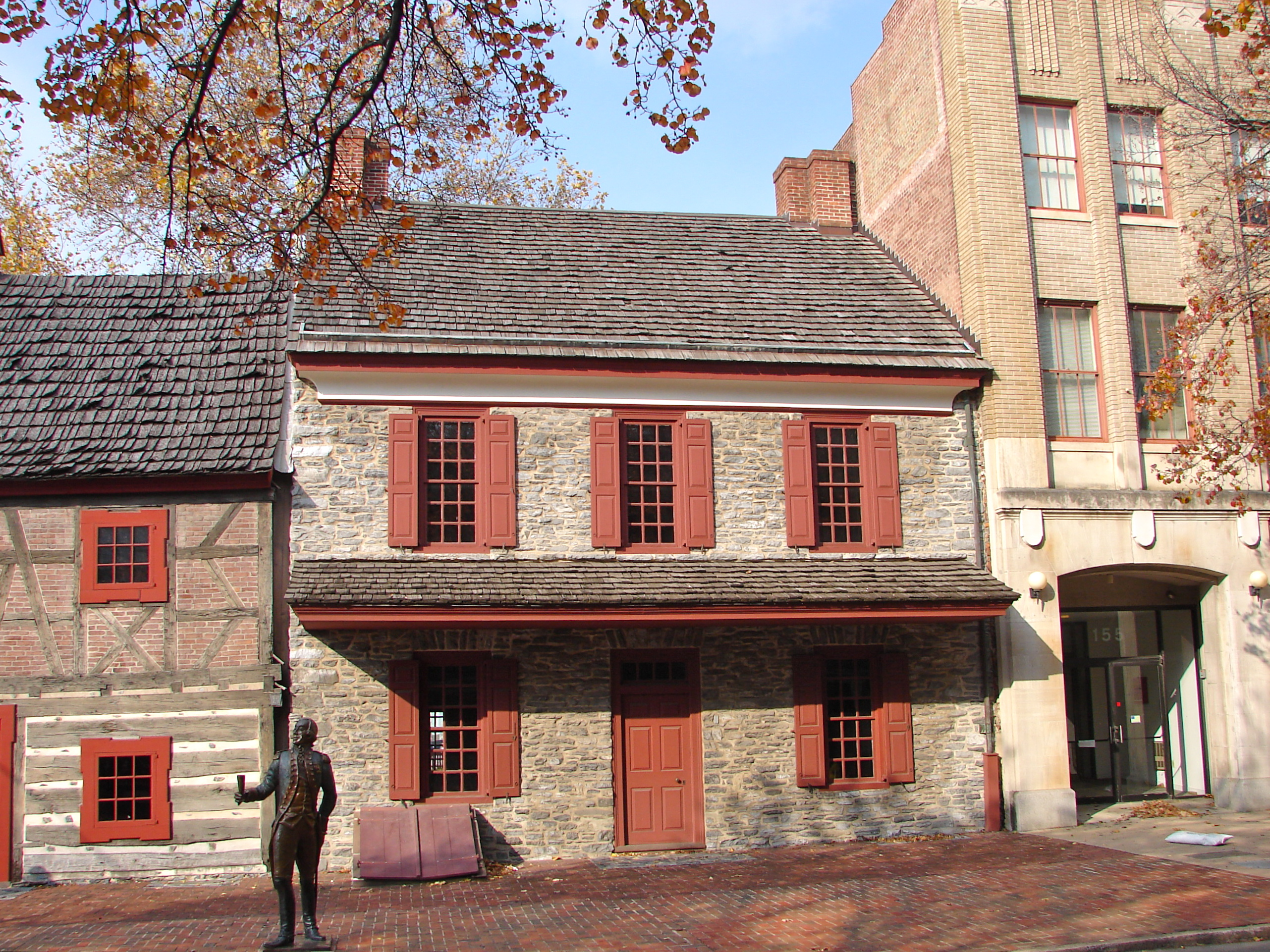 Gen. Horatio Gates House on the NRHP since December 6, 1971. At 157–159 West Market Street, York, York County, Pennsylvania. Statue in front is of Gates.